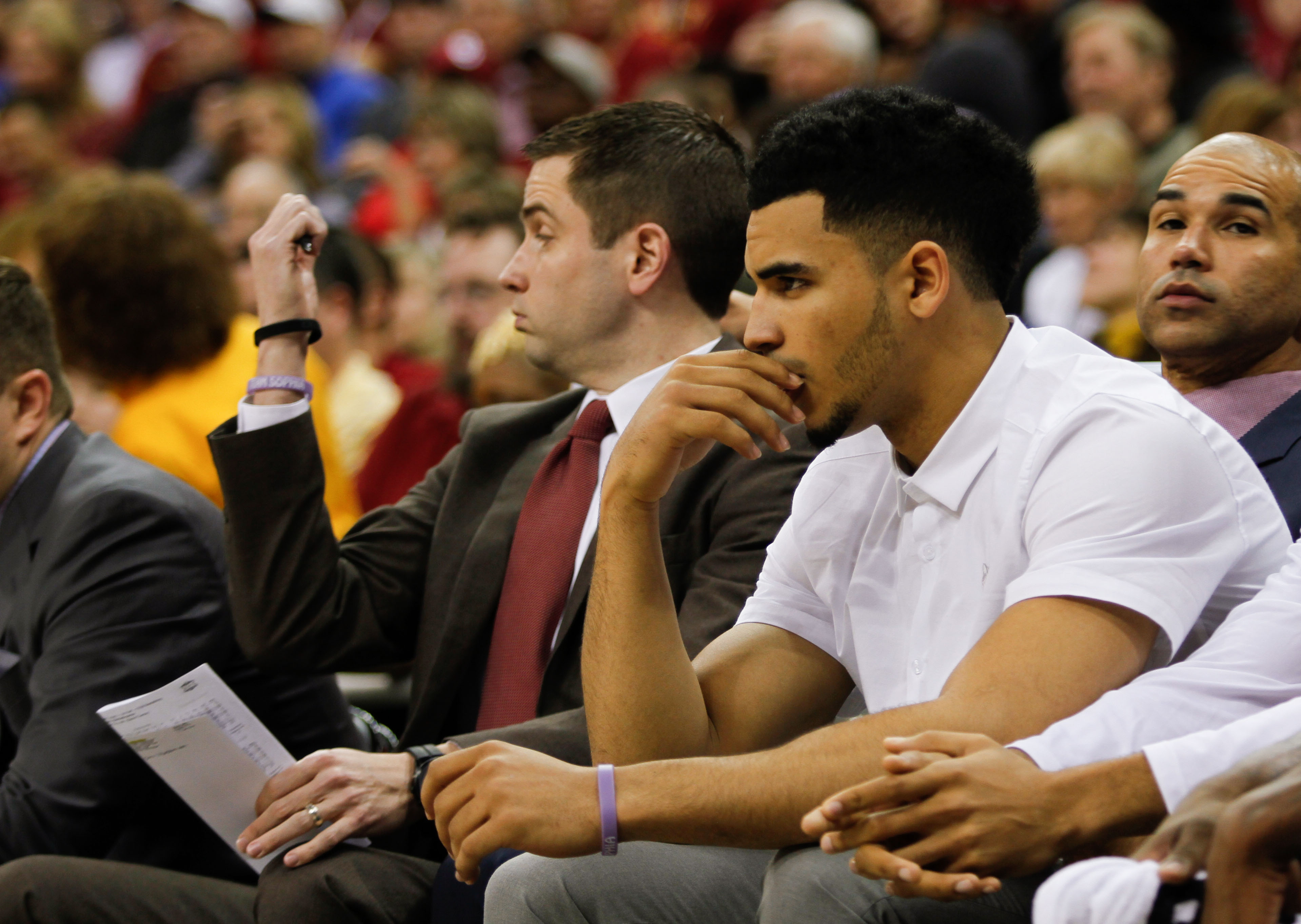 Naz Mitrou-Long sat out for the 2015-16 season due to pains from hip surgeries.